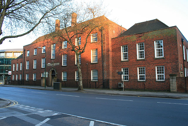 Nottingham Labour Exchange On Castle Boulevard. This does not appear to now be a Job Centre Plus.